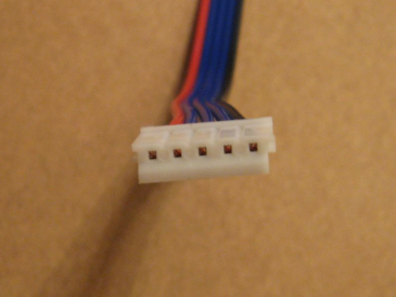 plug EH